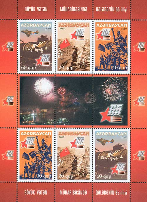 A sheet of Azerbaijani stamps commemorating the 65th anniversary of victory in the Great Patriotic War.